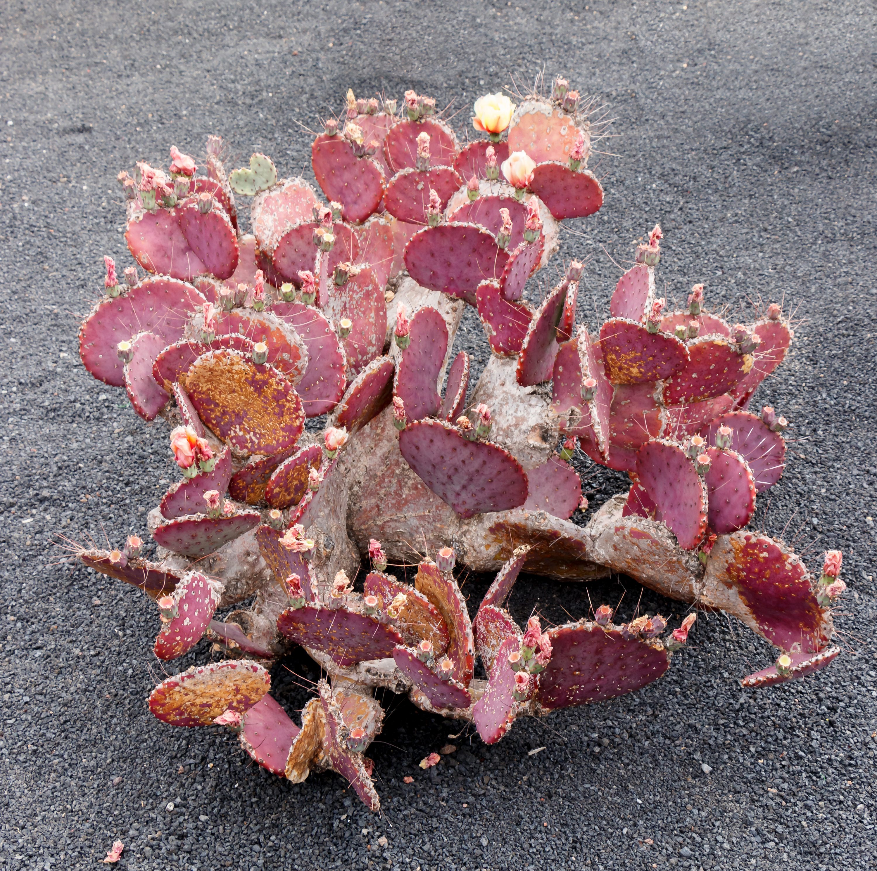 Opuntia macrocentra Engelm., Black-Spined Prickly Pear; Habitus; Jardin de Cactus, Guatiza, Lanzarote, Canary Islands, Spain.